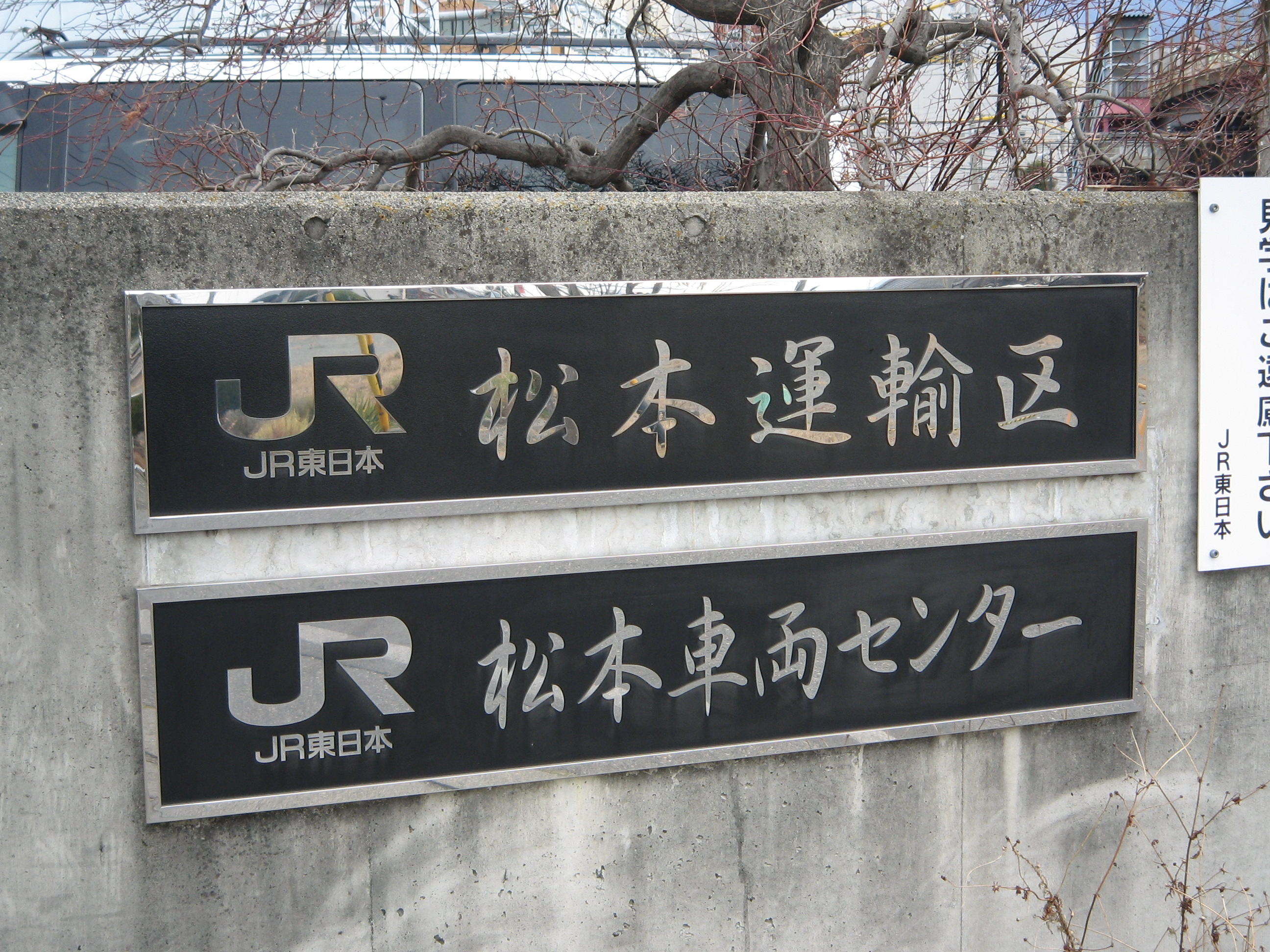 East Japan Railway Company Matsumoto Rolling Stock Center